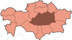 Map of Karaganda Region